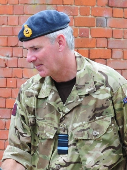 British Air Marshal Andrew Pulford at Stanford Training Area (STANTA), Thetford, England.